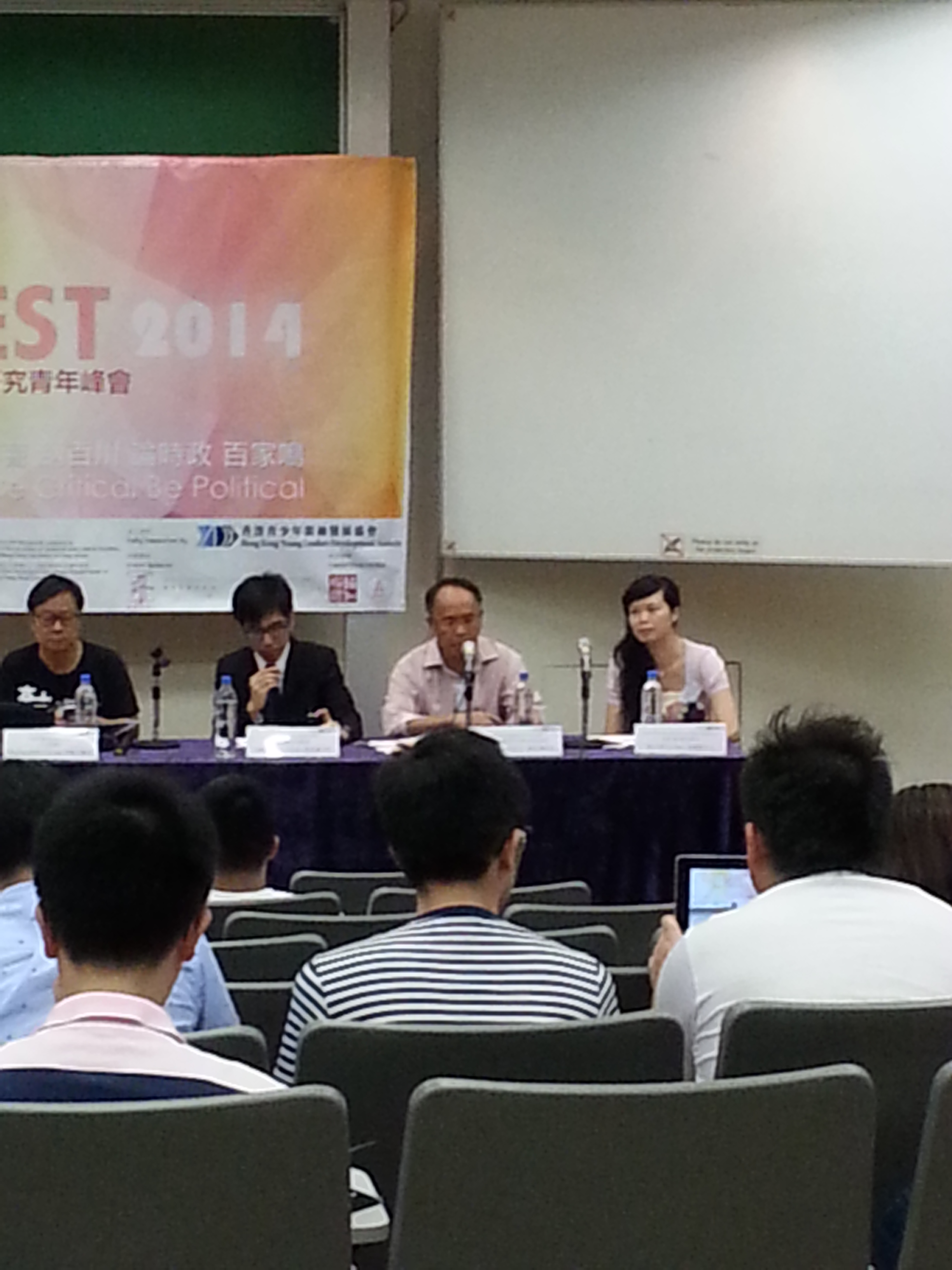 Paul Yip@HKU Seminar